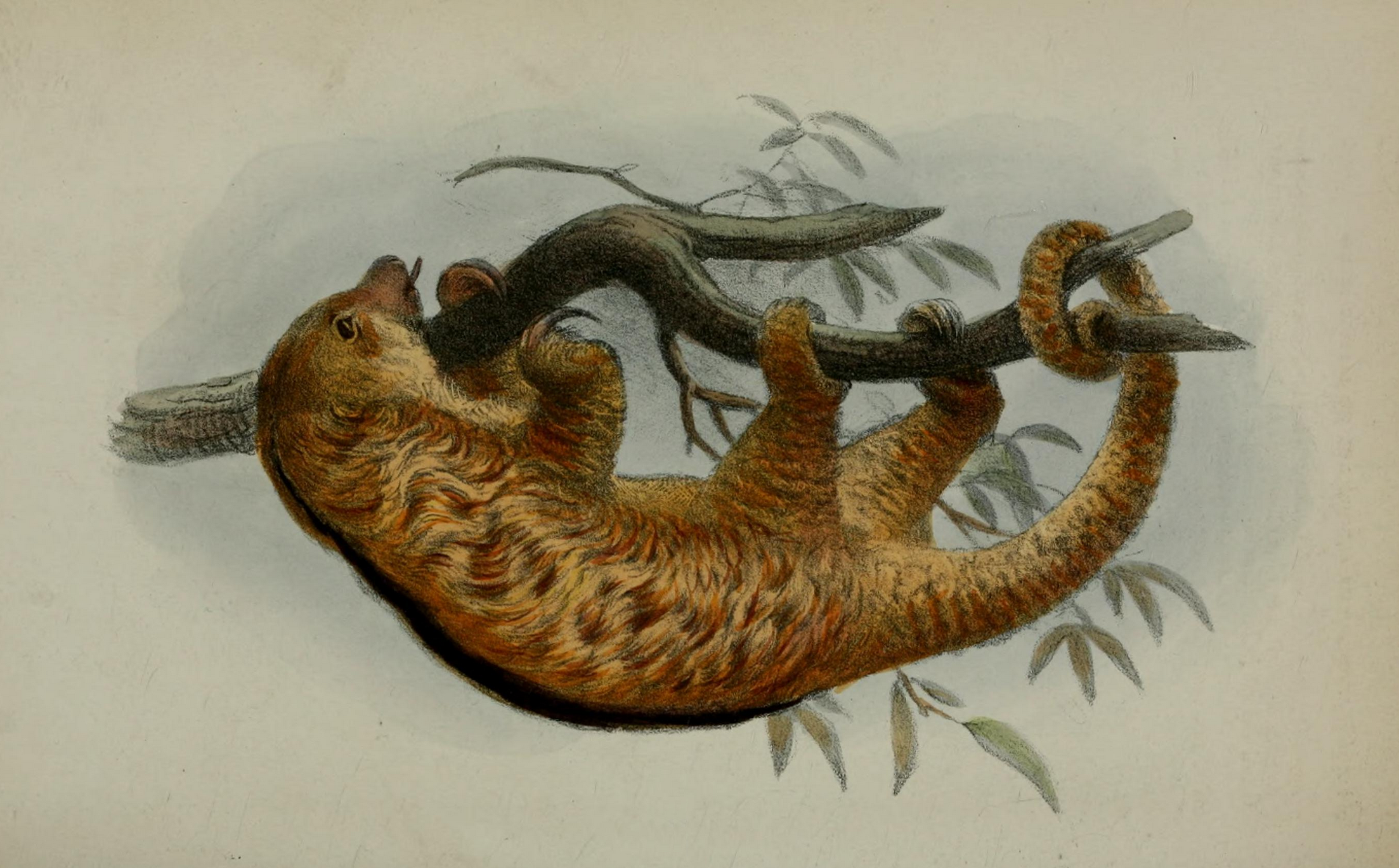 Drawing of Cyclopes dorsalis from the species description by John Edward Gray 1865 (original version)